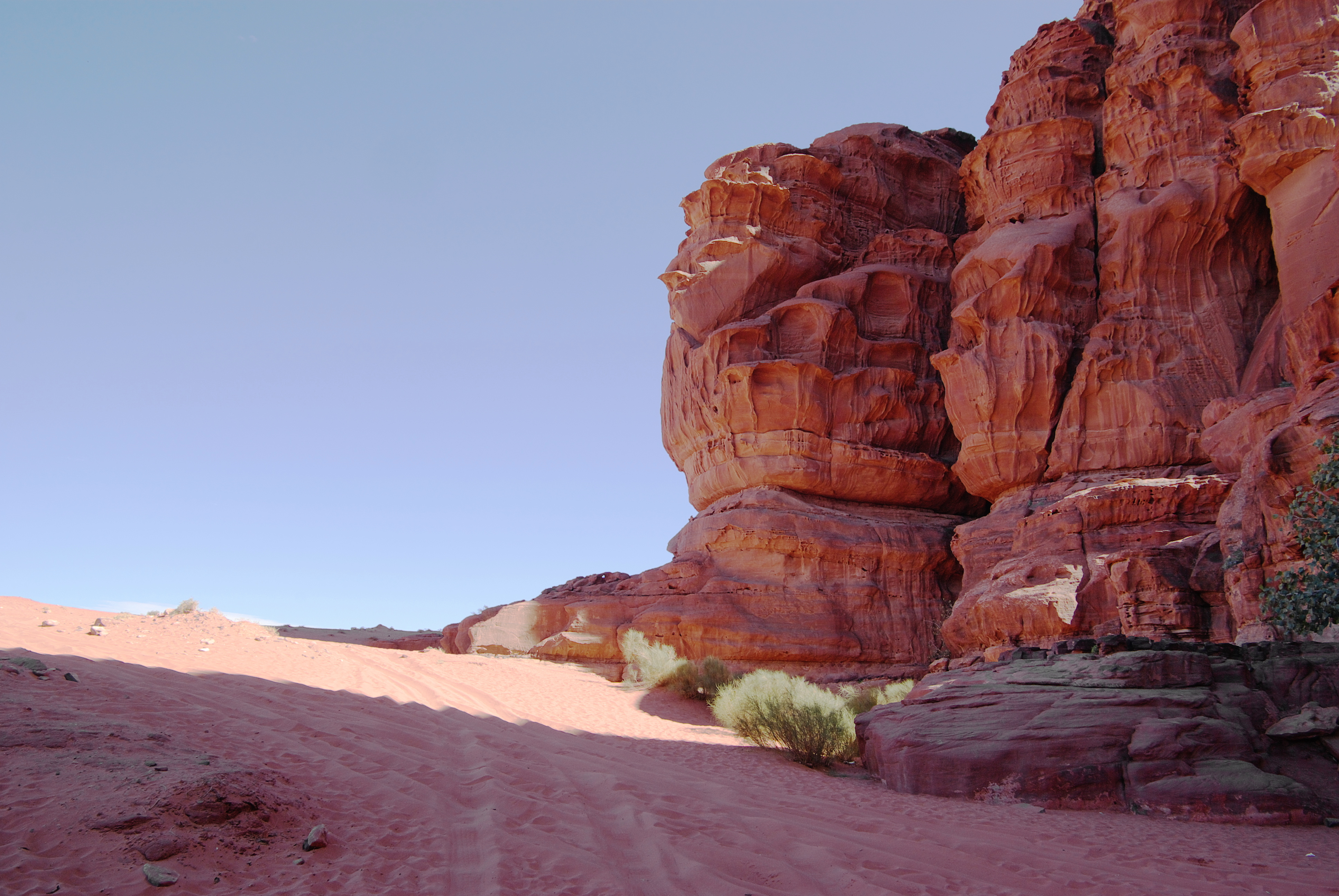 Wadi Rum, Jebel Khazali